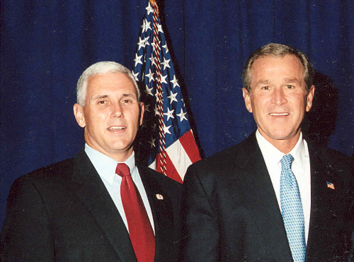 Rep. Pence with President Bush Congressman Pence with U.S. President George W. Bush.